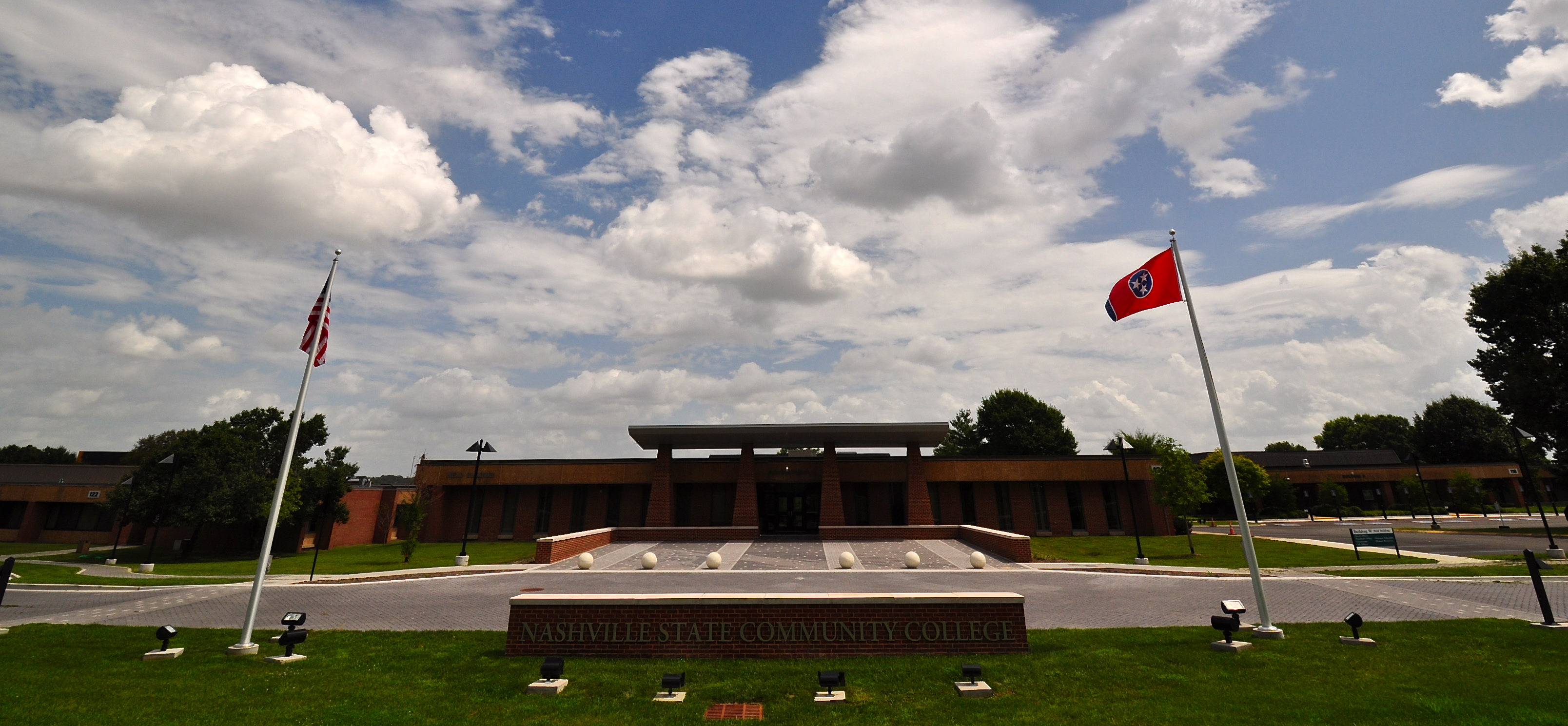 Nashville State Community College - Main Campus located at 120 White Bridge Road, Nashville, Tennessee.